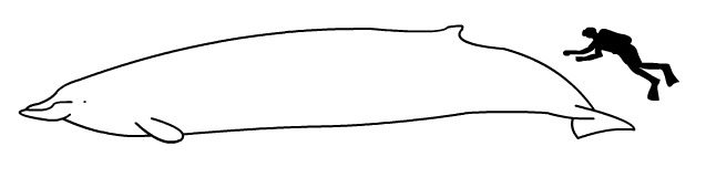 Size comparison of an average human against the Baird's beaked whale